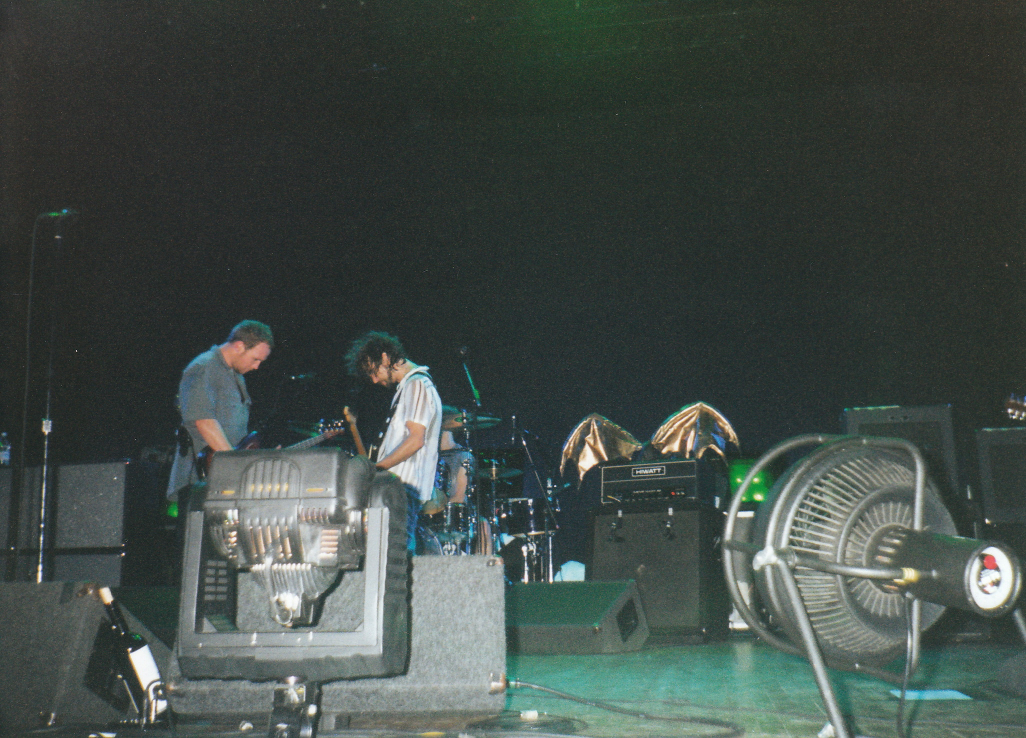 Eddie Vedder and Jeff Ament 2000